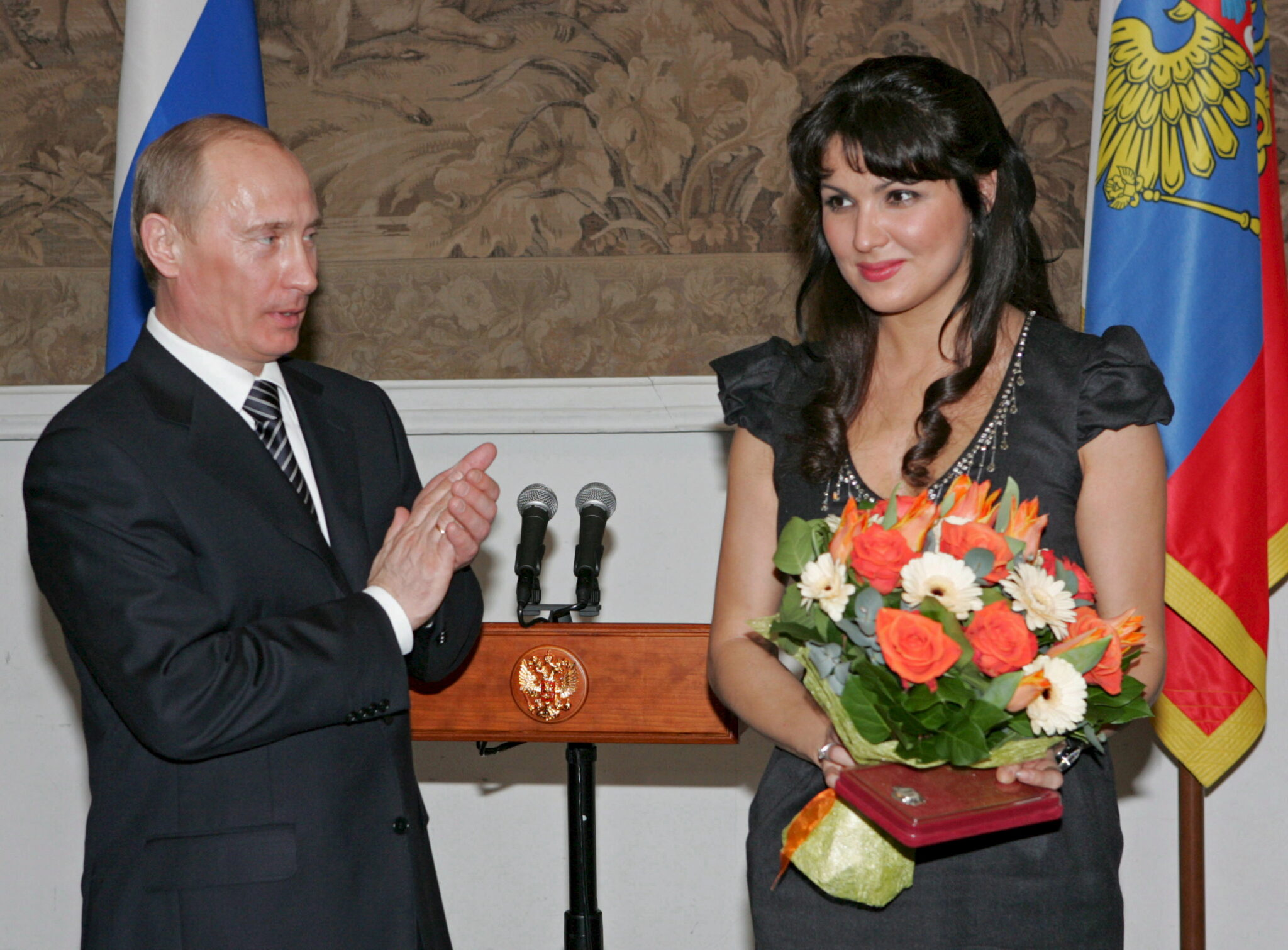 MARIINSKY THEATRE, ST PETERSBURG. State decorations award ceremony. Anna Netrebko, opera singer at the State Academic Mariinsky Theatre received the honorary title of People's Artist of Russia.